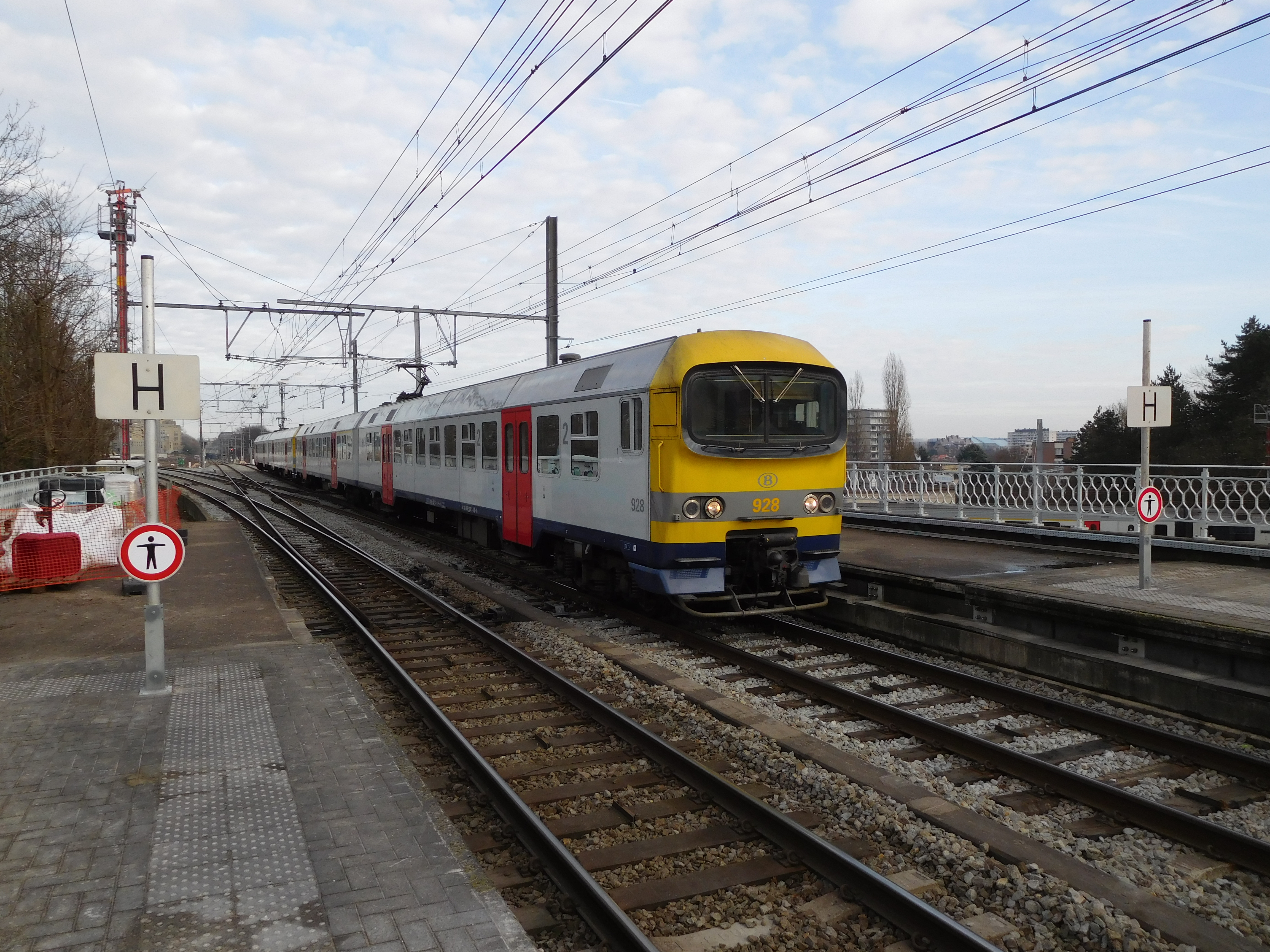 AM86 928 and 907 about to Stop in Arcades Train Station while a set of AM96 is passing on L161.